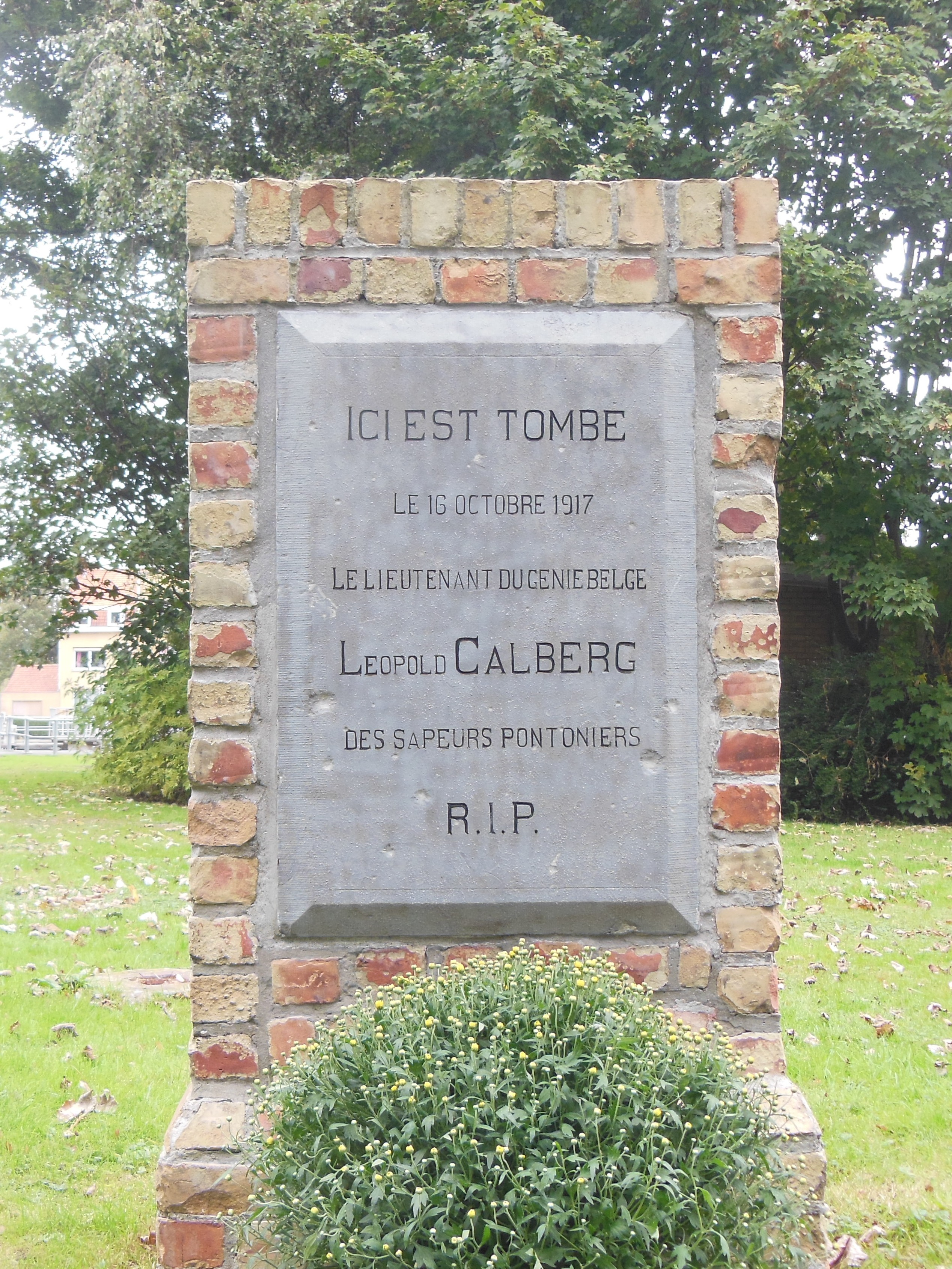 The street was named after Lieutenant Leopold Calberg who fell during World War One